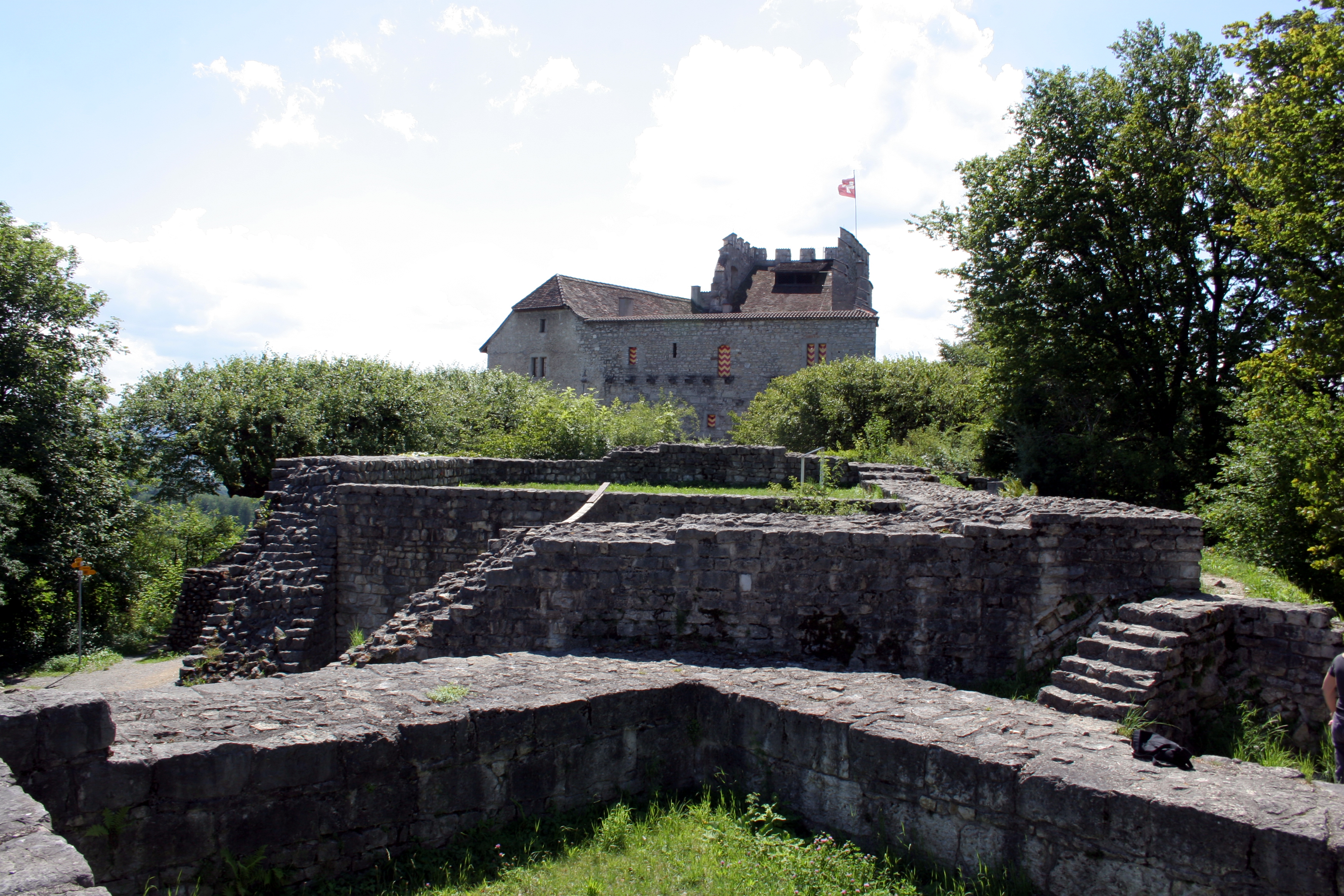 Castle of Habsburg, Habsburg, Aargau, Switzerland in July 2005.